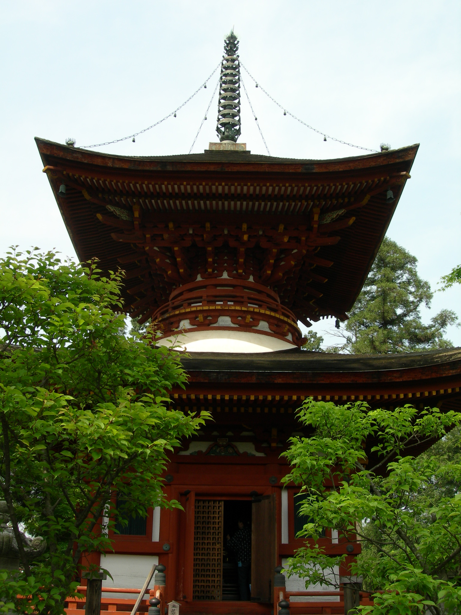 Tahōtō, Japanese pagoda from Kumedera, Kashihara, Nara. taken in 2010.